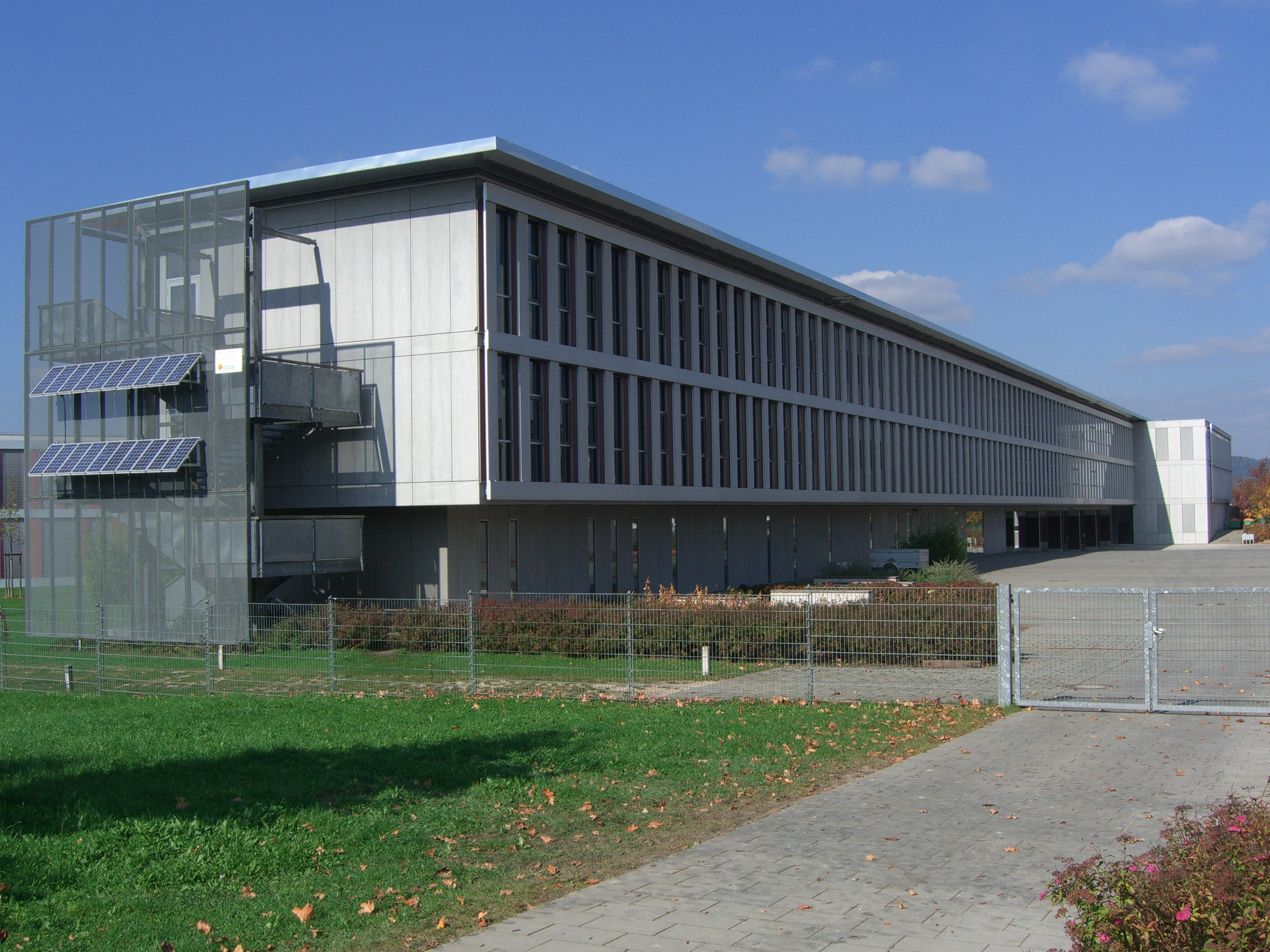 The Gymnasium Eckental in Eschenau, municipality of Eckental, in Bavaria, Germany, viewed at the front angle.